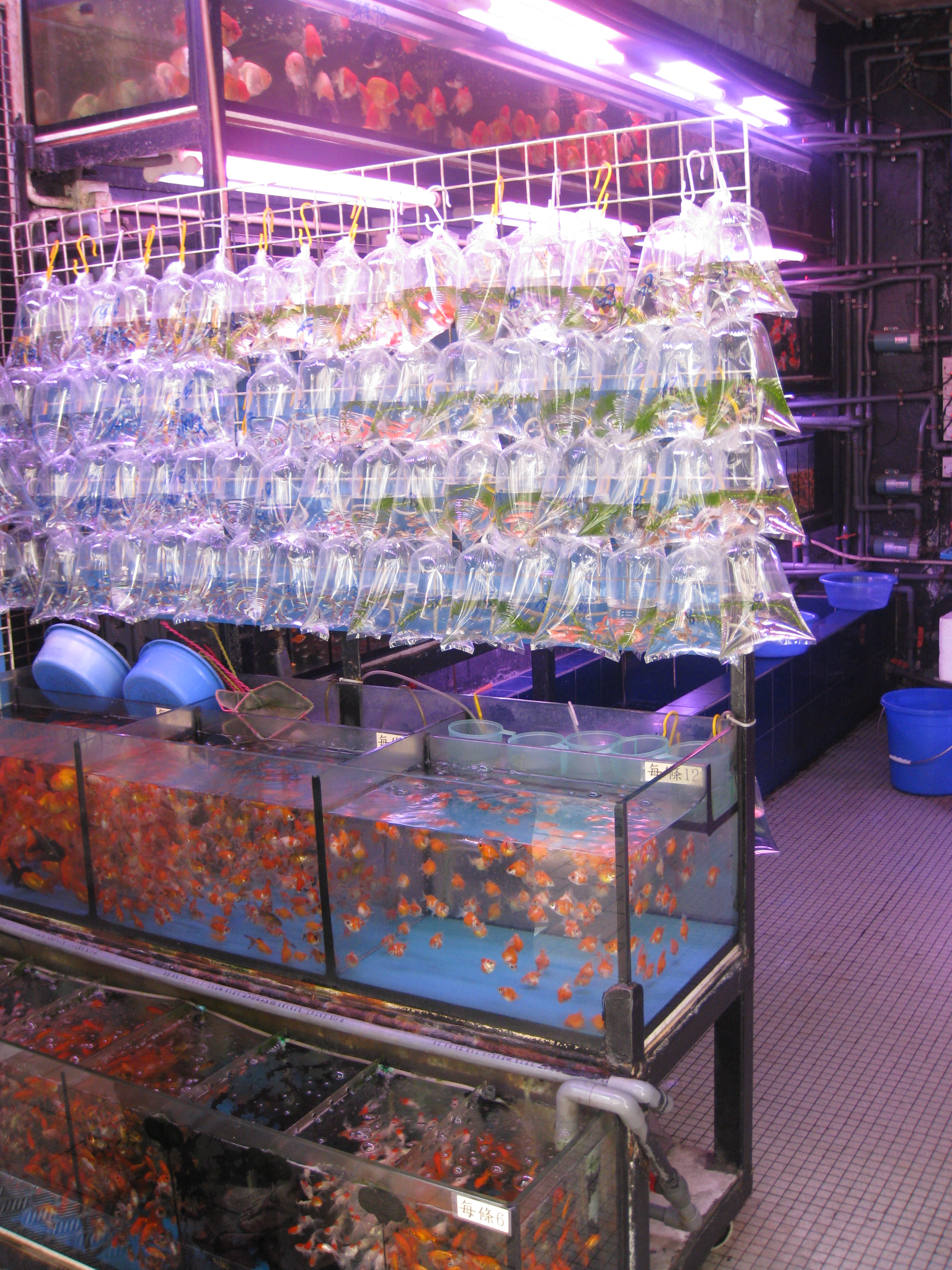 Hong Kong Goldfish Market